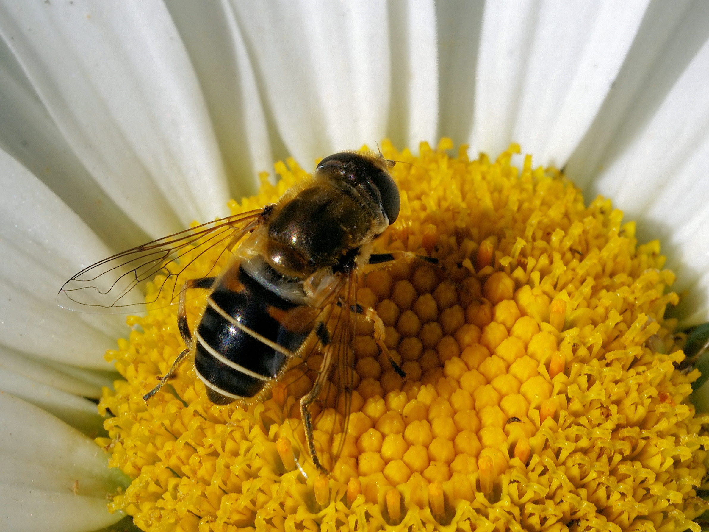 A hoverfly on oxeye daisy in Brugge, Belgium